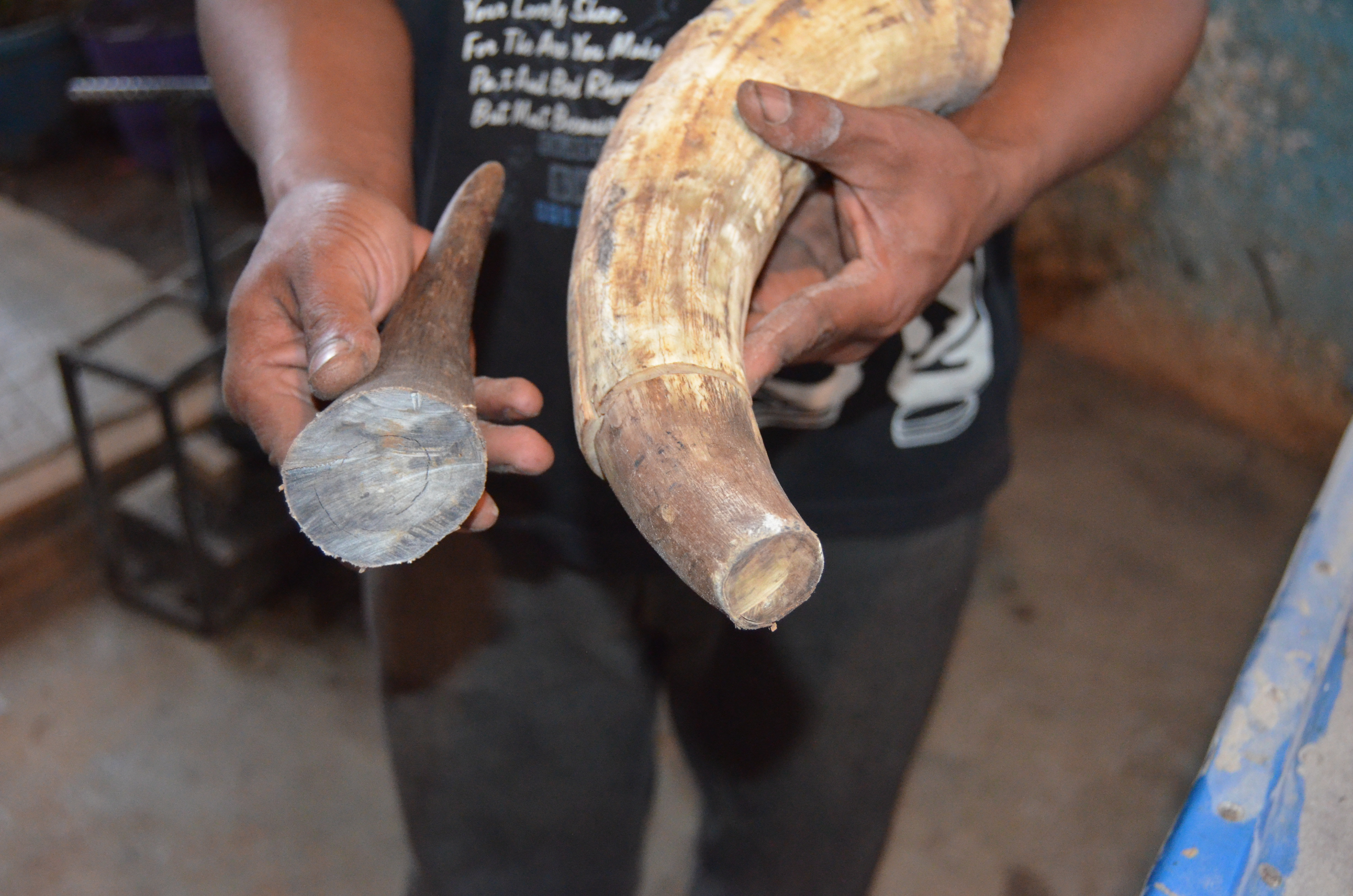 Zebu horns.